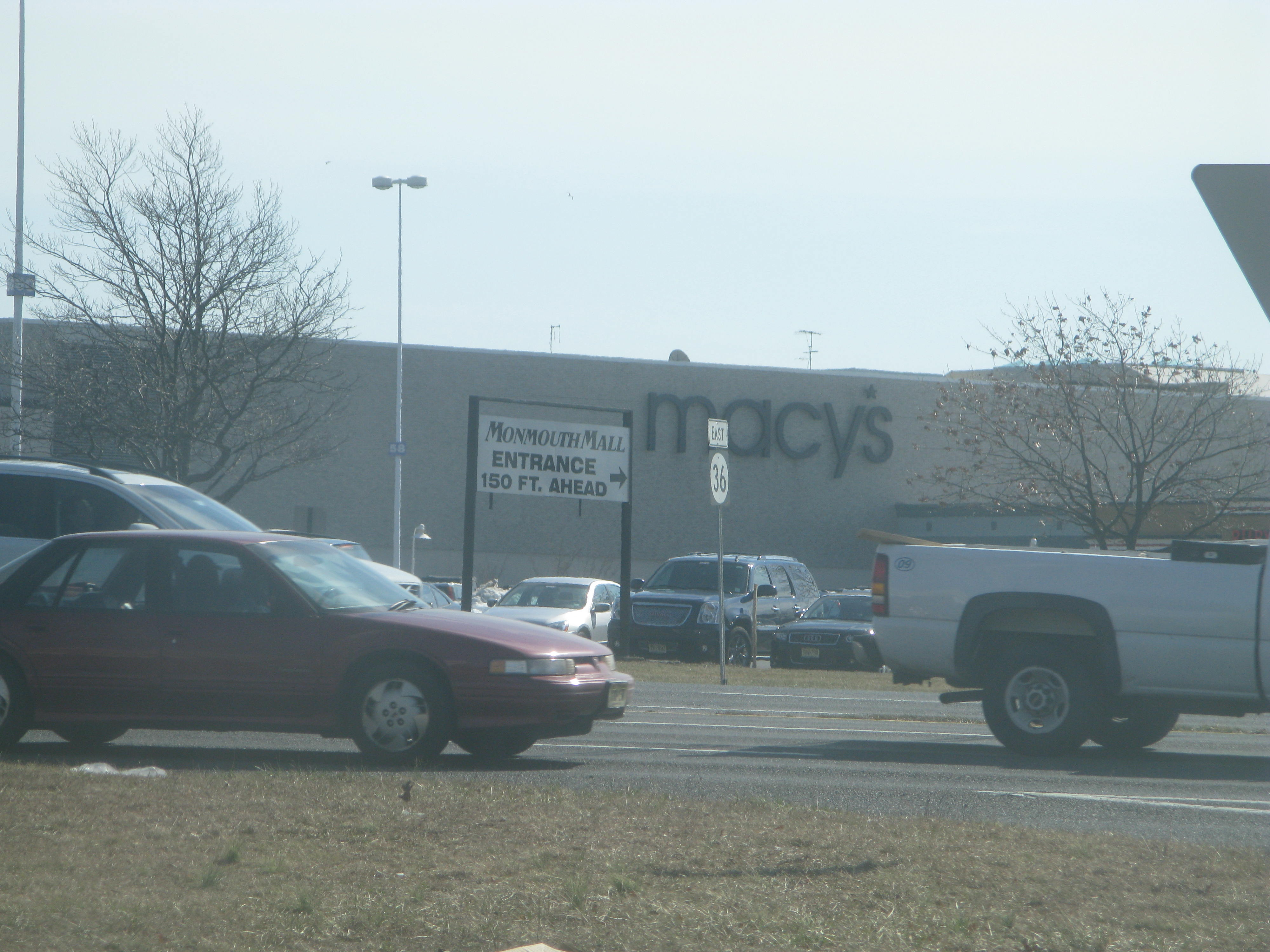 Monmouth Mall entrance from Route 36.